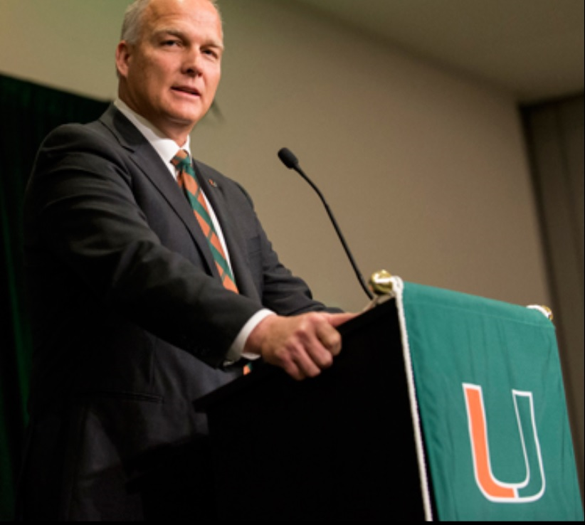 Mark Richt University of Miami